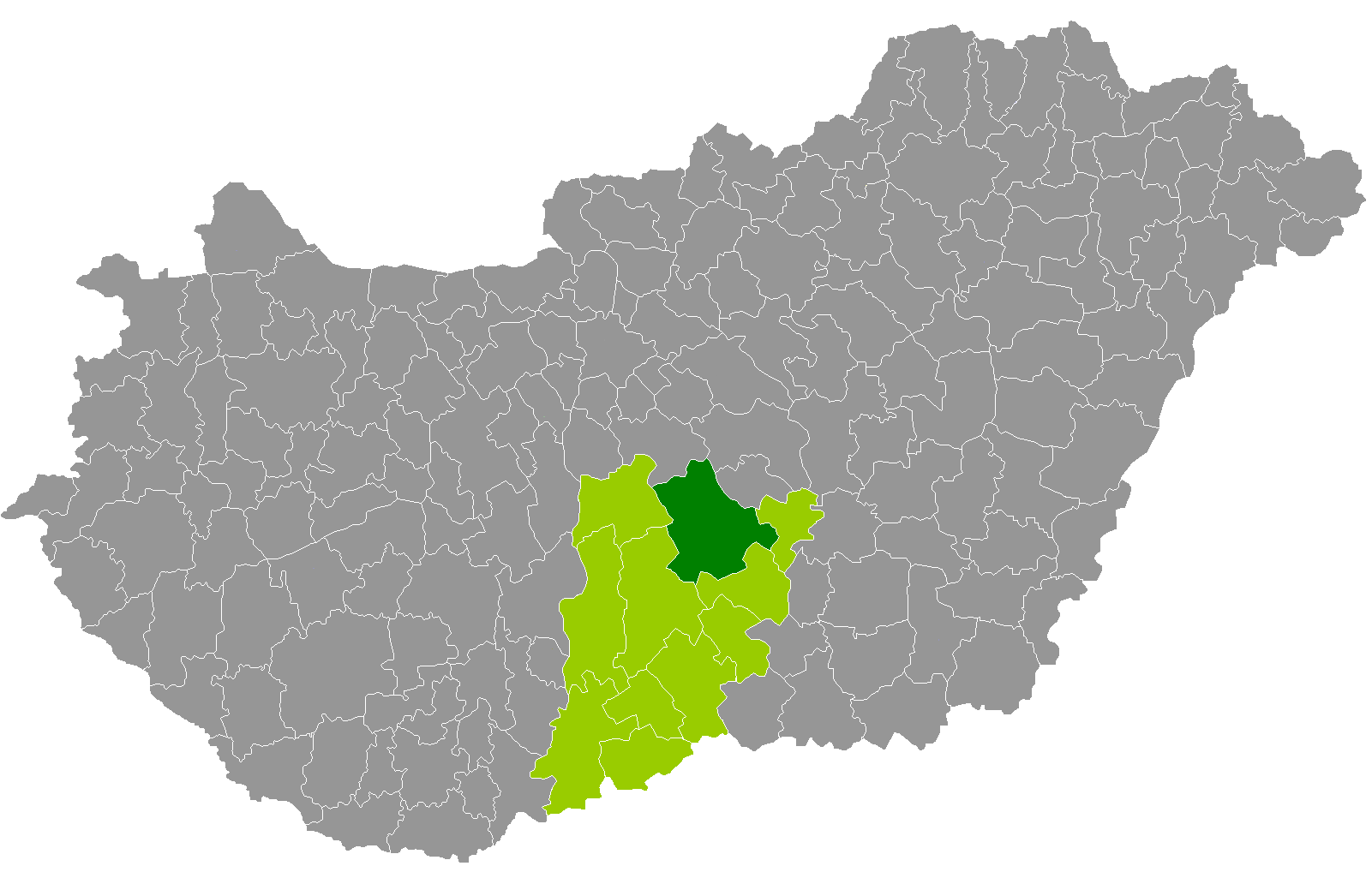 Location of Kecskemét District, Bács-Kiskun, Hungary